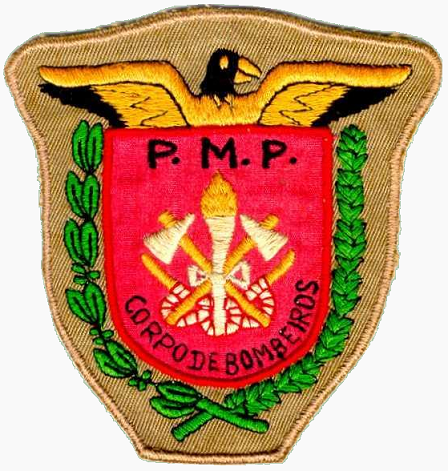 Old Badge of Firefighters of Parana - Brazil.